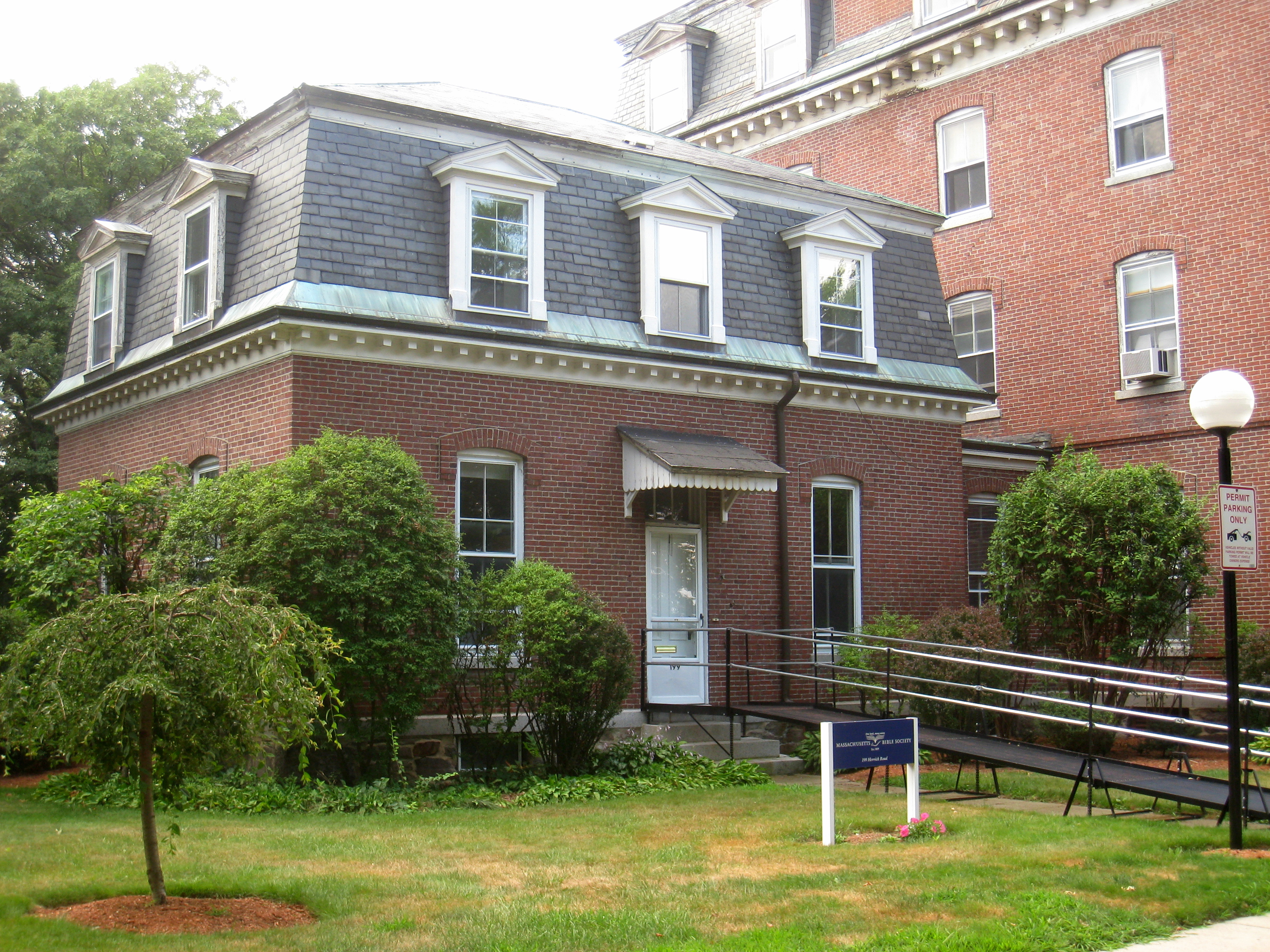 Massachusetts Bible Society, Andover Newton Theological School, 210 Herrick Road, Newton Centre, Massachusetts, USA.